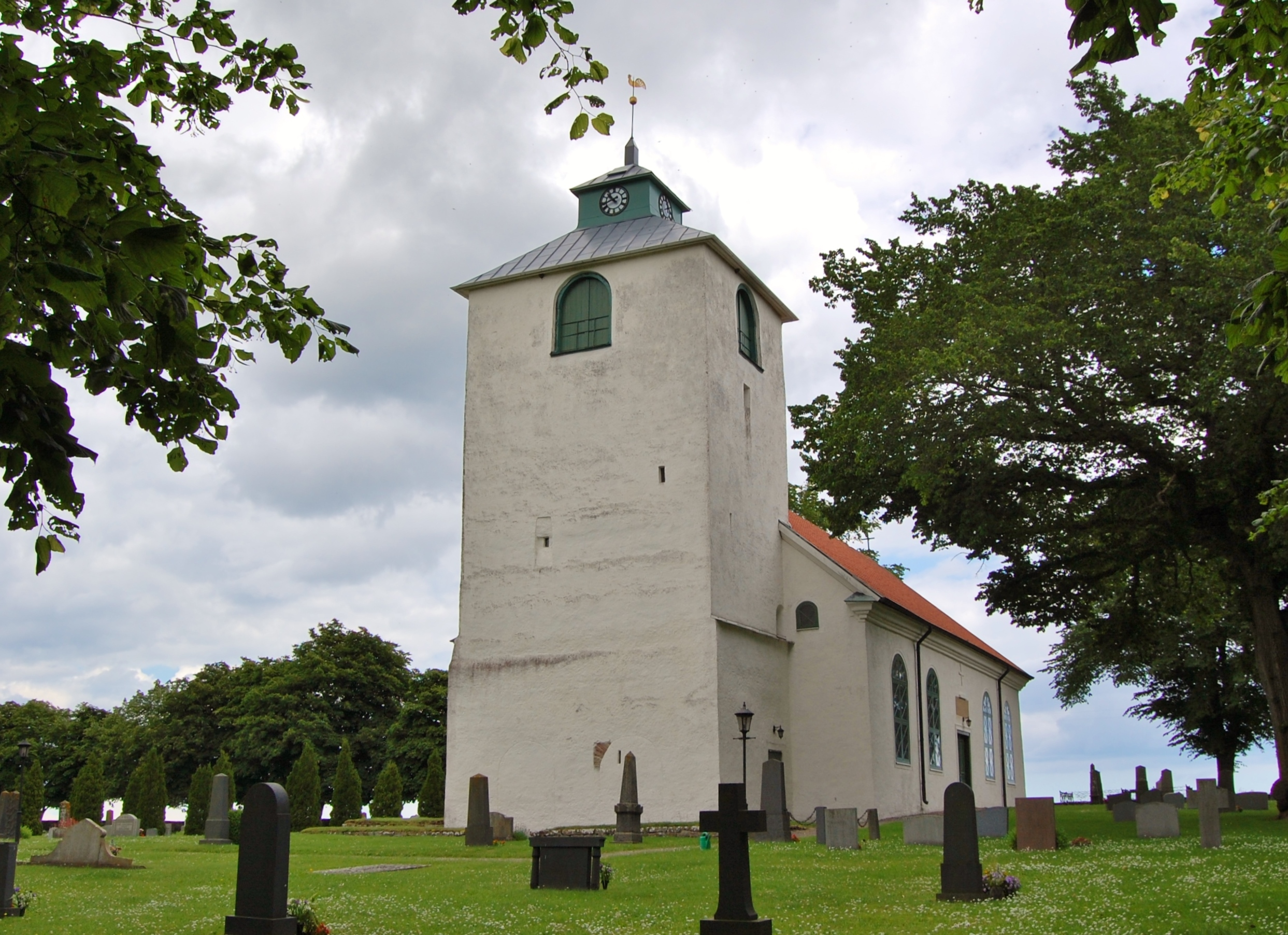 Hulterstad Church from the southwest.